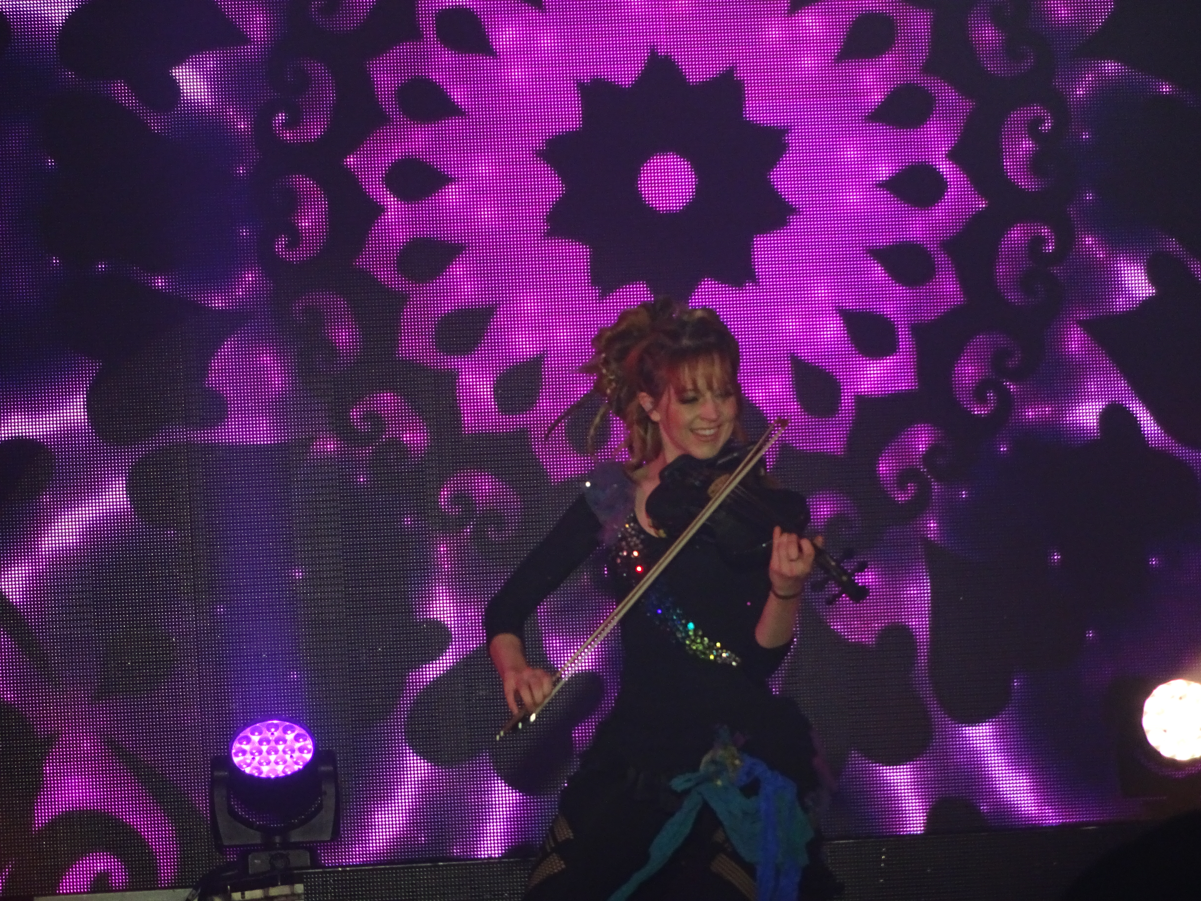 Lindsey Sterling Cenon near Bordeaux France 2014